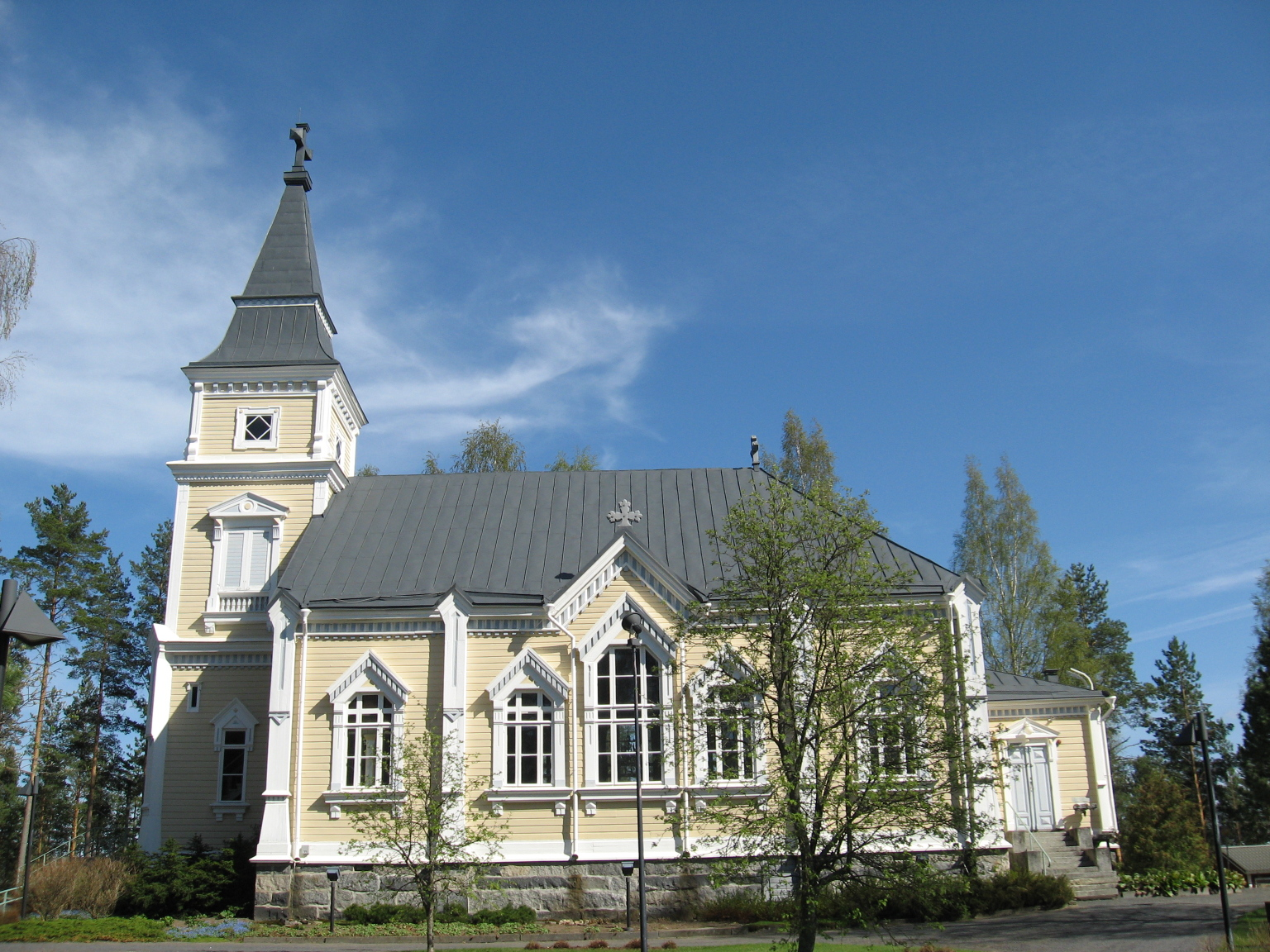 Church of Toivakka, Finland (10 May 2008)